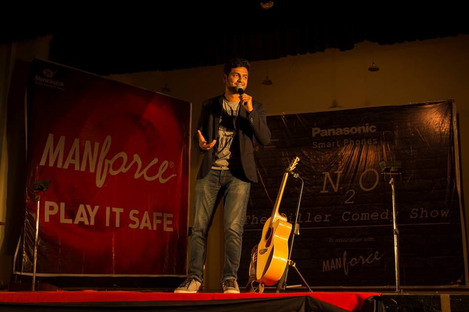 Kenny Sebastian performing at N2O, Oasis 2016